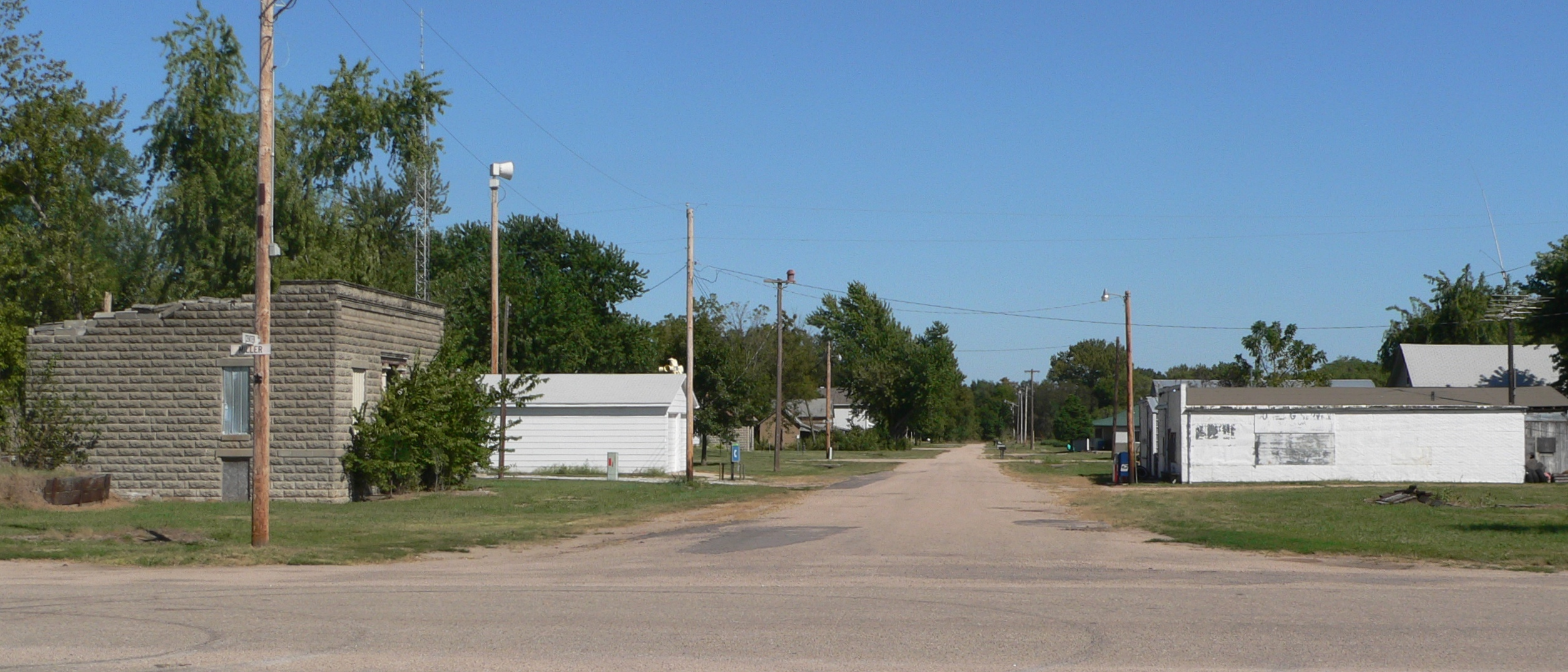 Downtown Surprise, Nebraska: Center Street, looking east from about Miller Street.